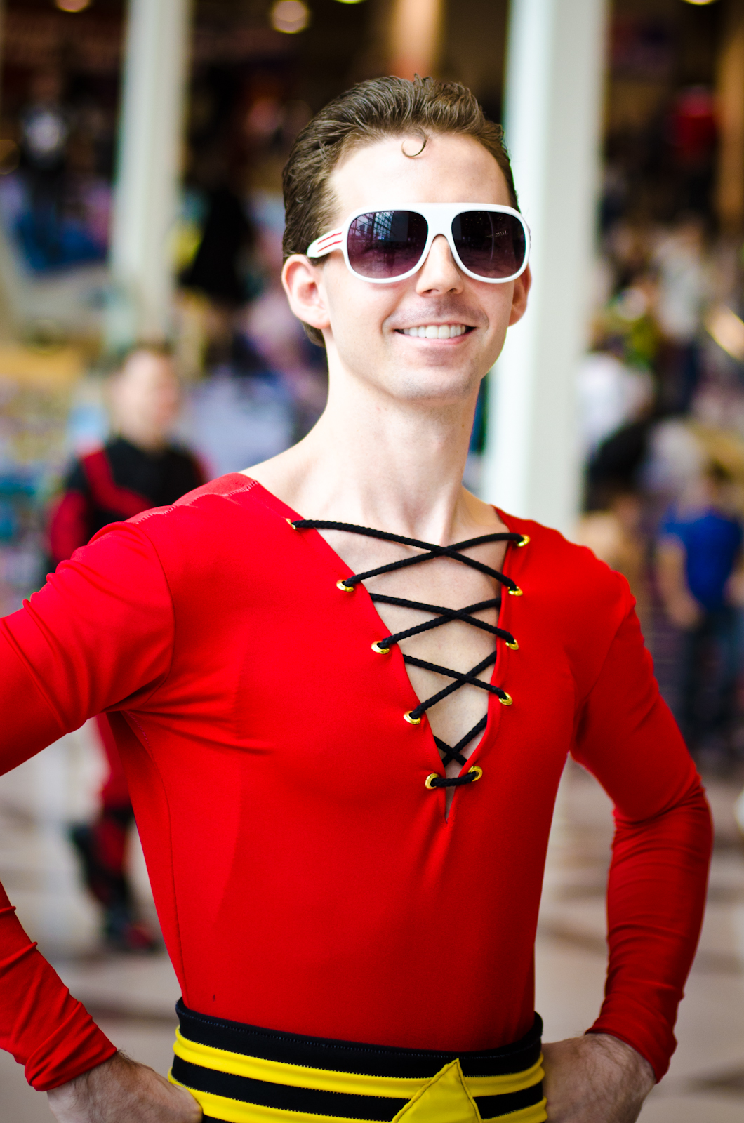 Cosplay at New York Comic Con 2011 (NYCC 2011).